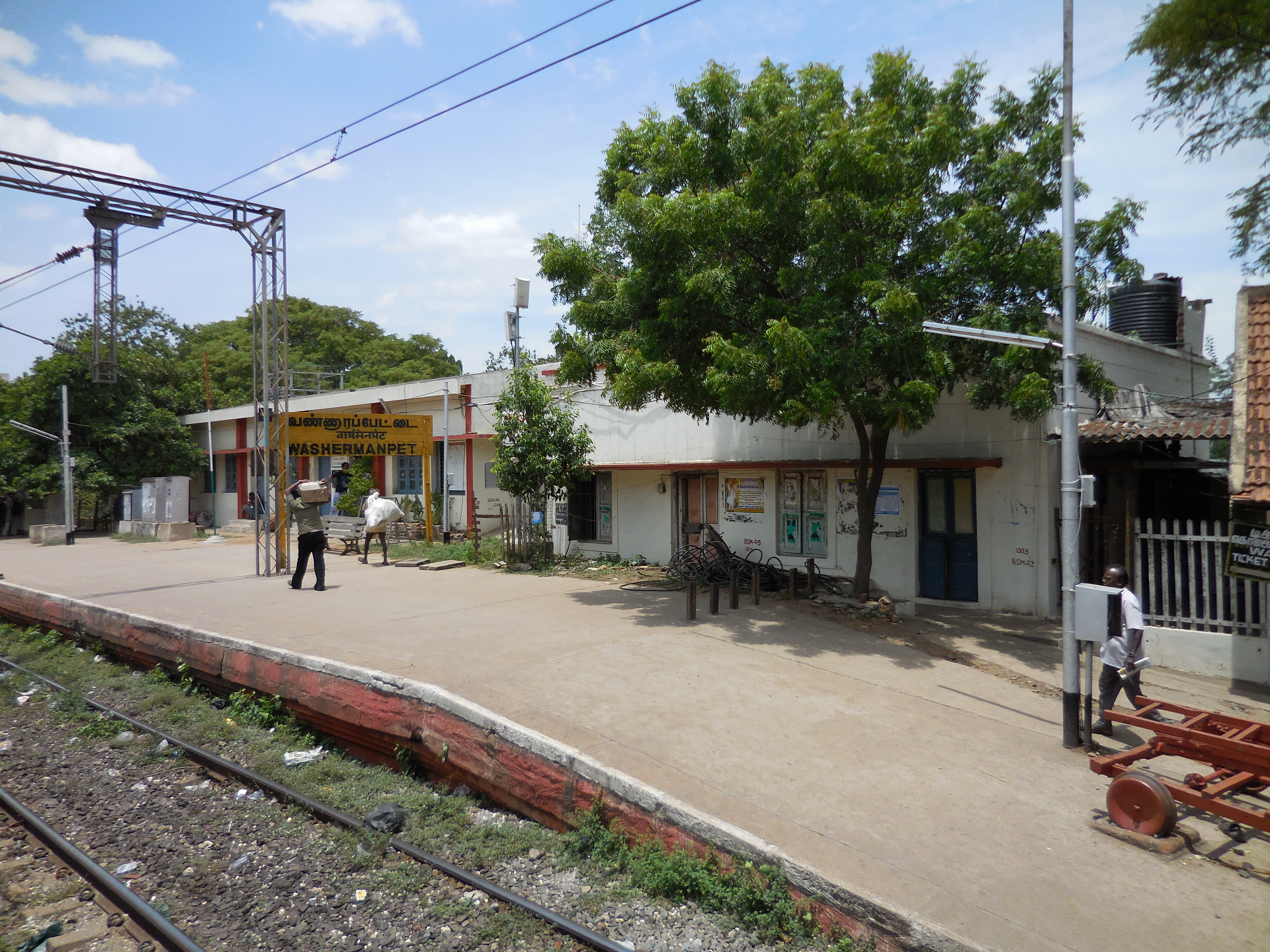 Washermanpet railway station, Chennai, western end, taken on 15 July 2014 at noon.